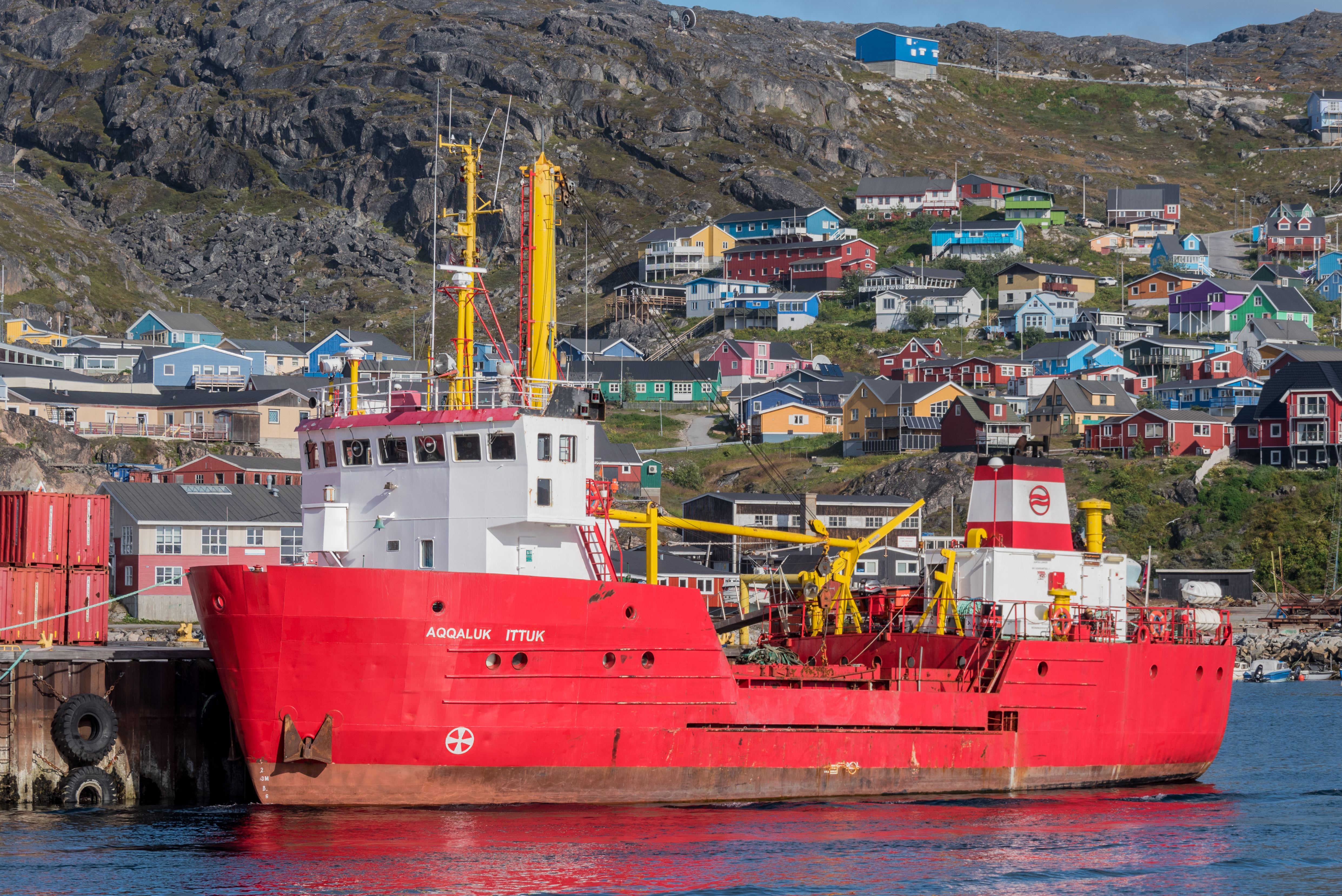 Settlement ship, AQQALUK ITTUK - IMO 8208725, of the Royal Arctic Linietrafik at the dock in Qaqortoq, Greenland on September 7, 2017.